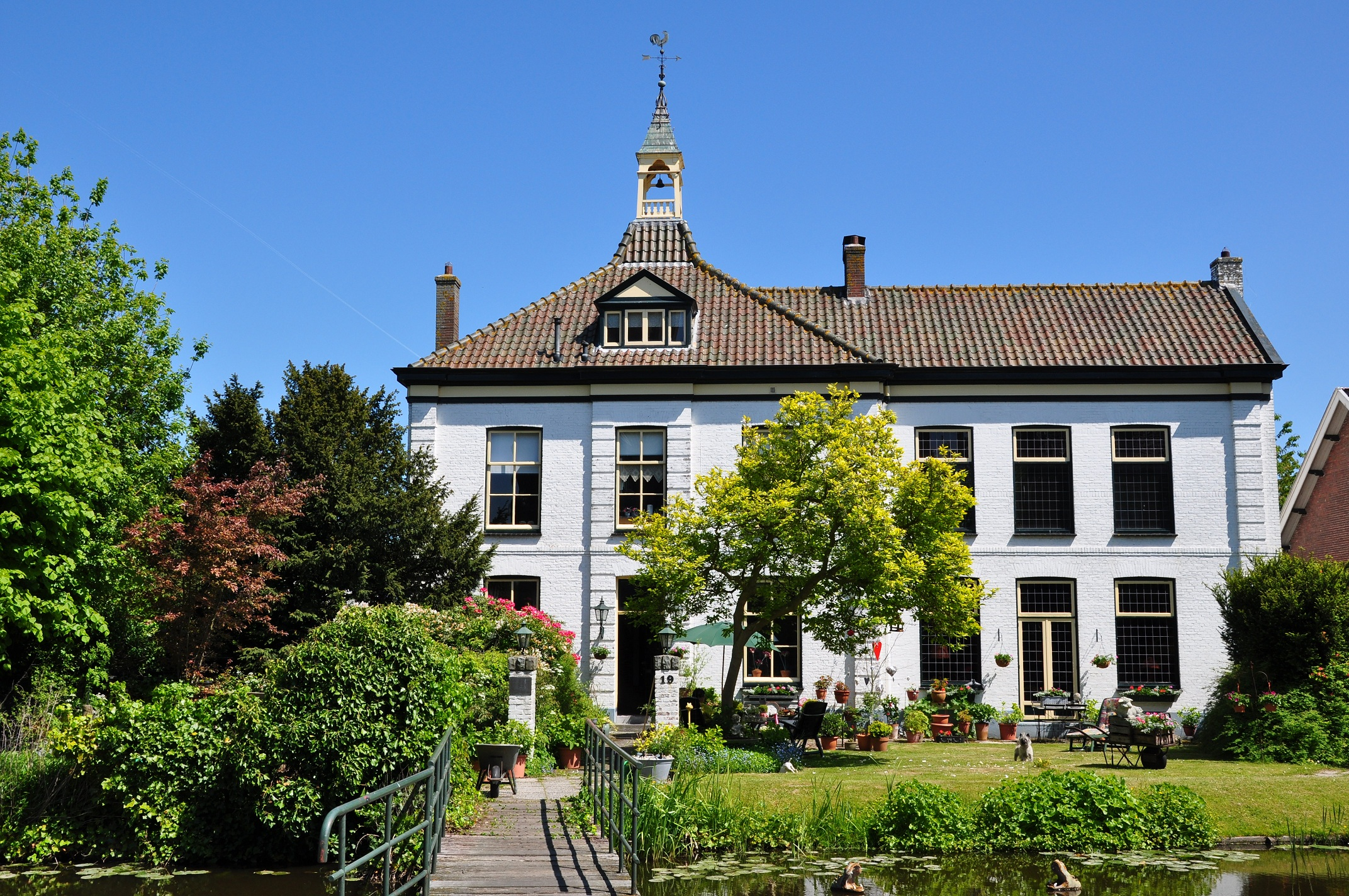 Former monastery of the Franciscan Order, containing a girls' school, in Zoeterwoude (Municipality of Zoeterwoude, Province South Holland, Netherlands). The building is from 1880. The Franciscan nuns left around 1965-1970.